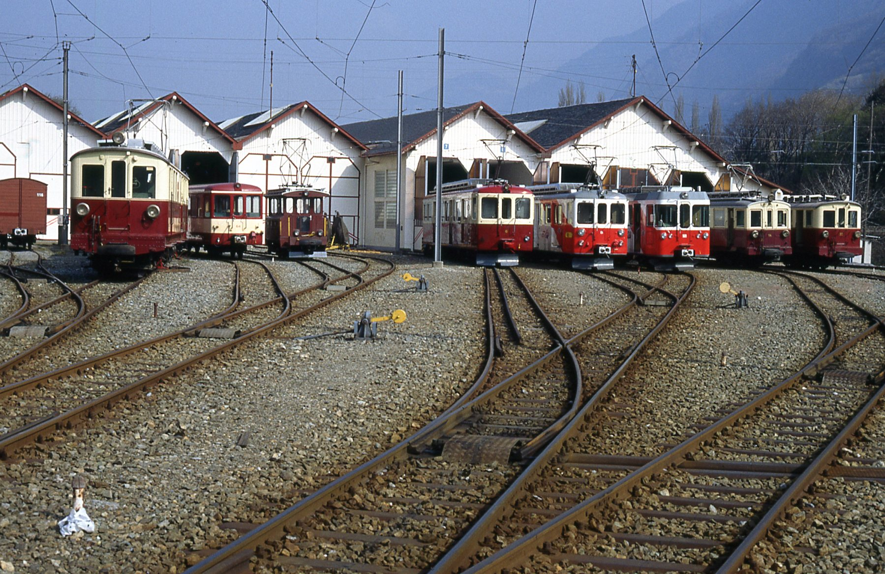 Rolling stock of the Martigny-Châtelard-Chamonix Railway at Vernayaz depot (Martigny commune).